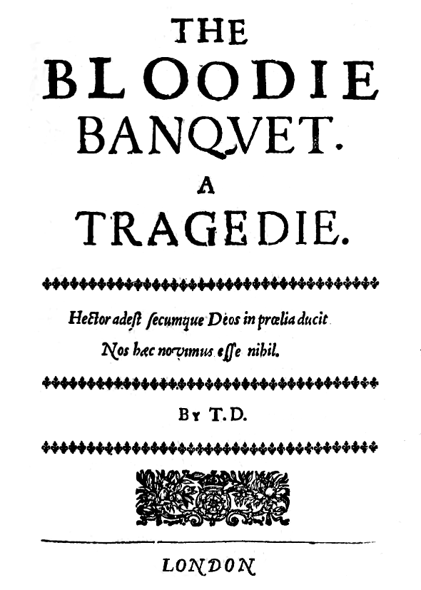 Title page of the scan of the early 17th century play The Bloody Banquet, attributed to the initials "T.D."